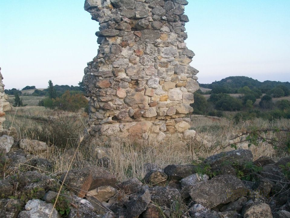 As shown today, ruins at Ano Kerdyllia, Serres peripheral unit, Central Macedonia.